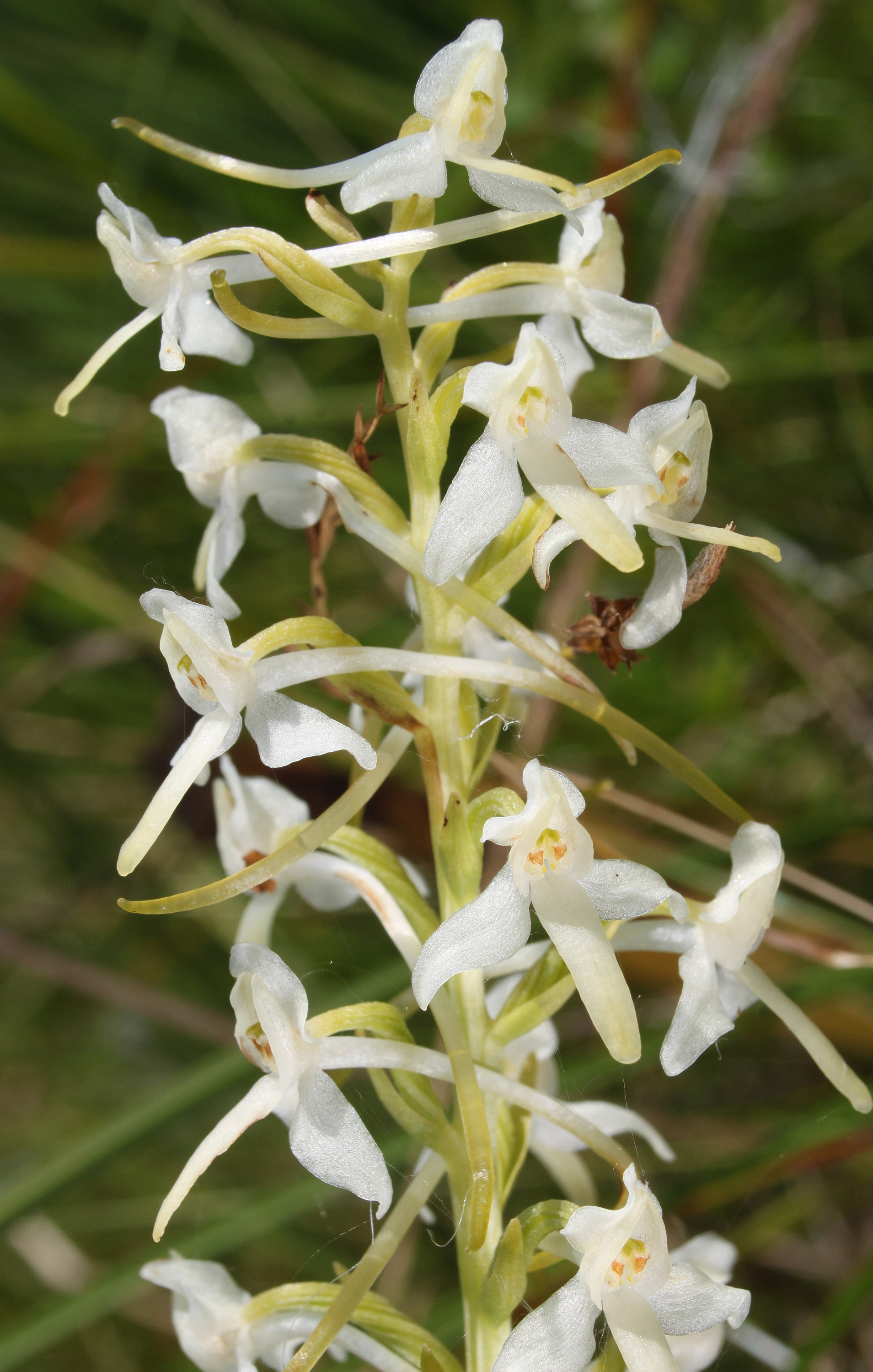 Lesser Butterfly-Orchid, Platanthera bifolia, Family: Orchidaceae, Location: Germany, Wertach